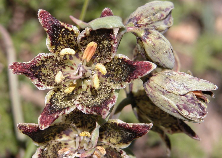 Fritillaria pinetorum. US Forest Service photo, no copyright.